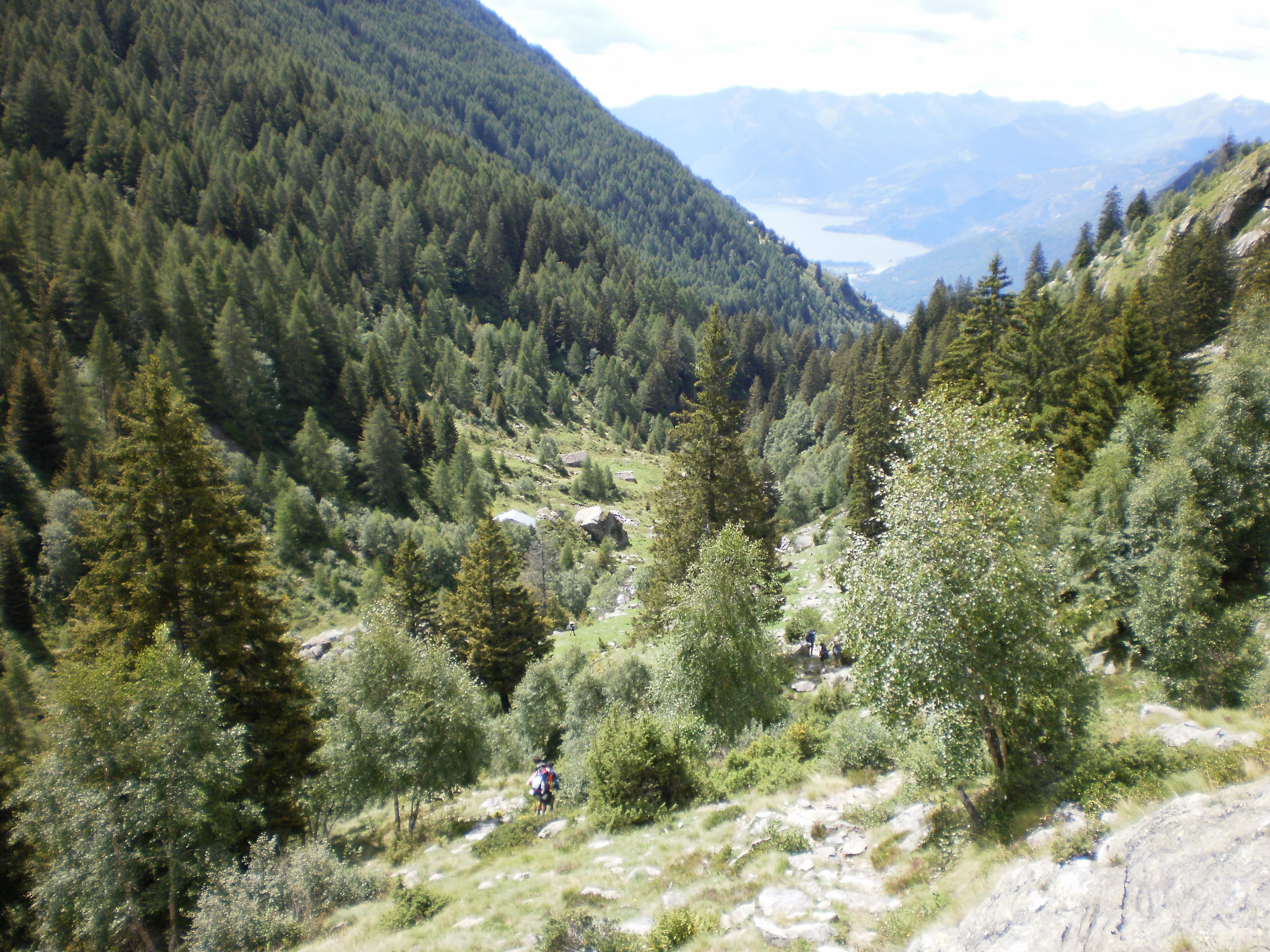 Valle dei Ratti